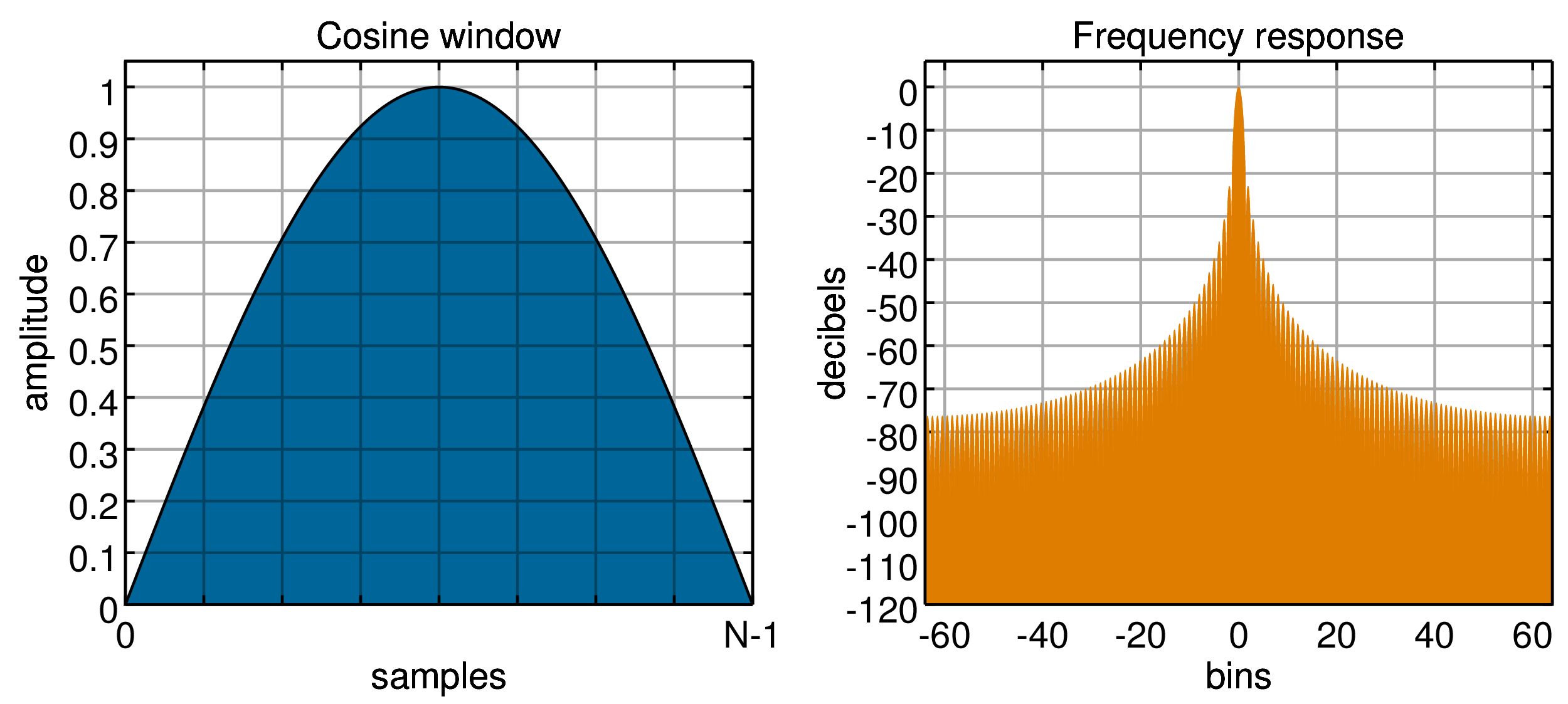 Sine window and frequency response